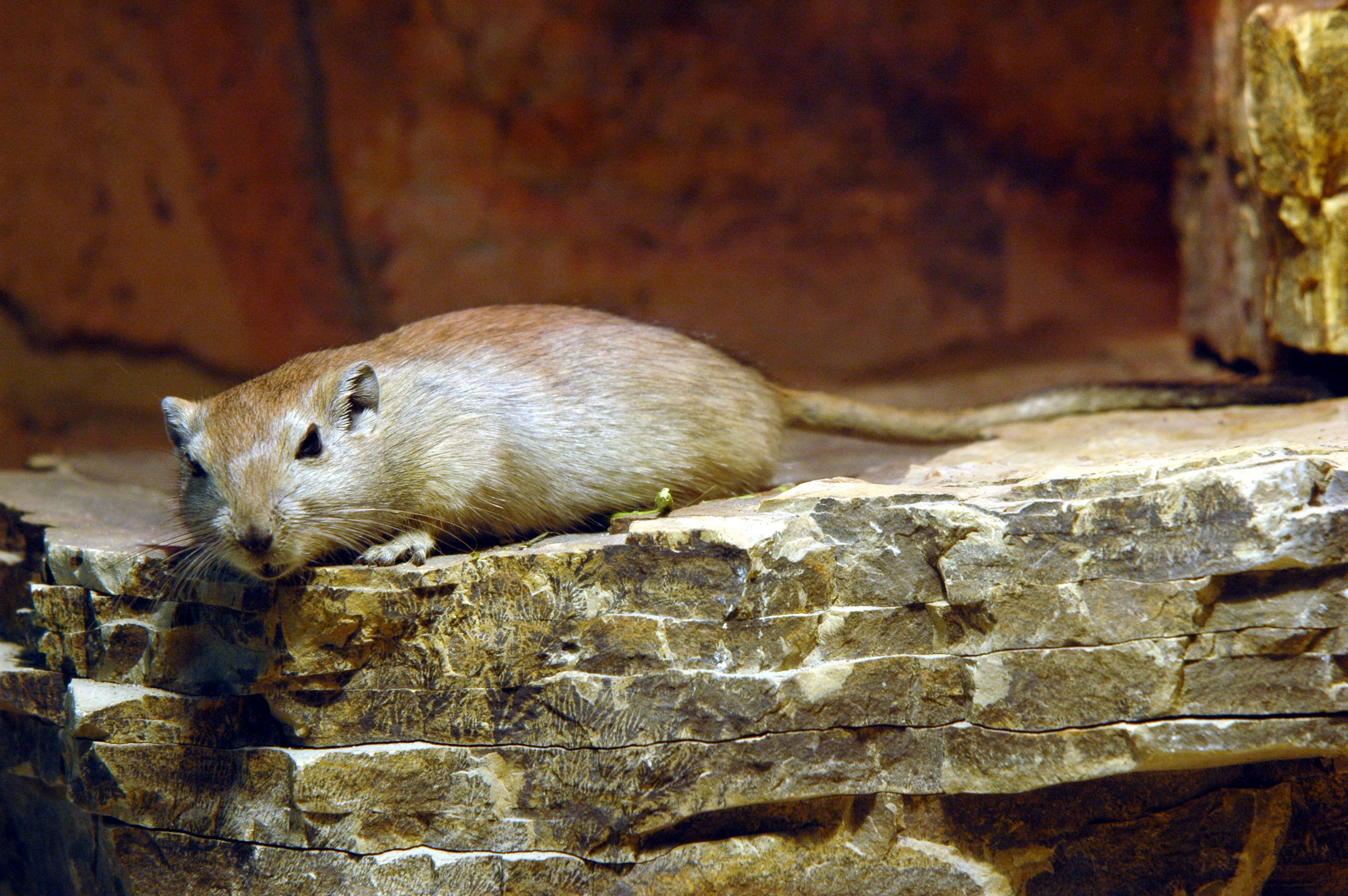 Fat Sand Rat